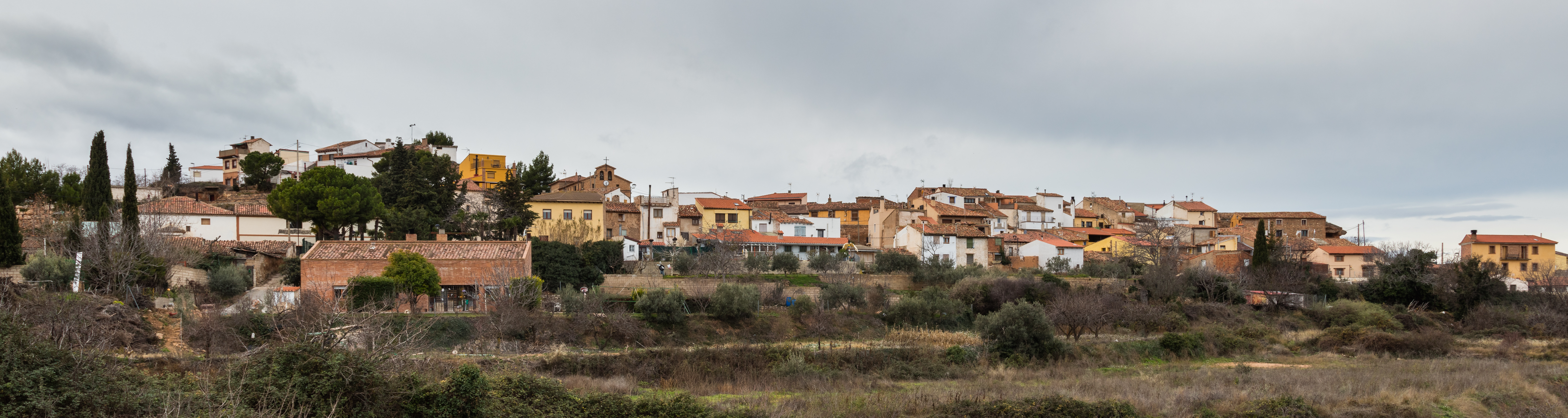 Santa Cruz de Moncayo, Zaragoza, Spain